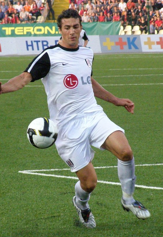 Stephen Kelly in action for Fulham F.C.